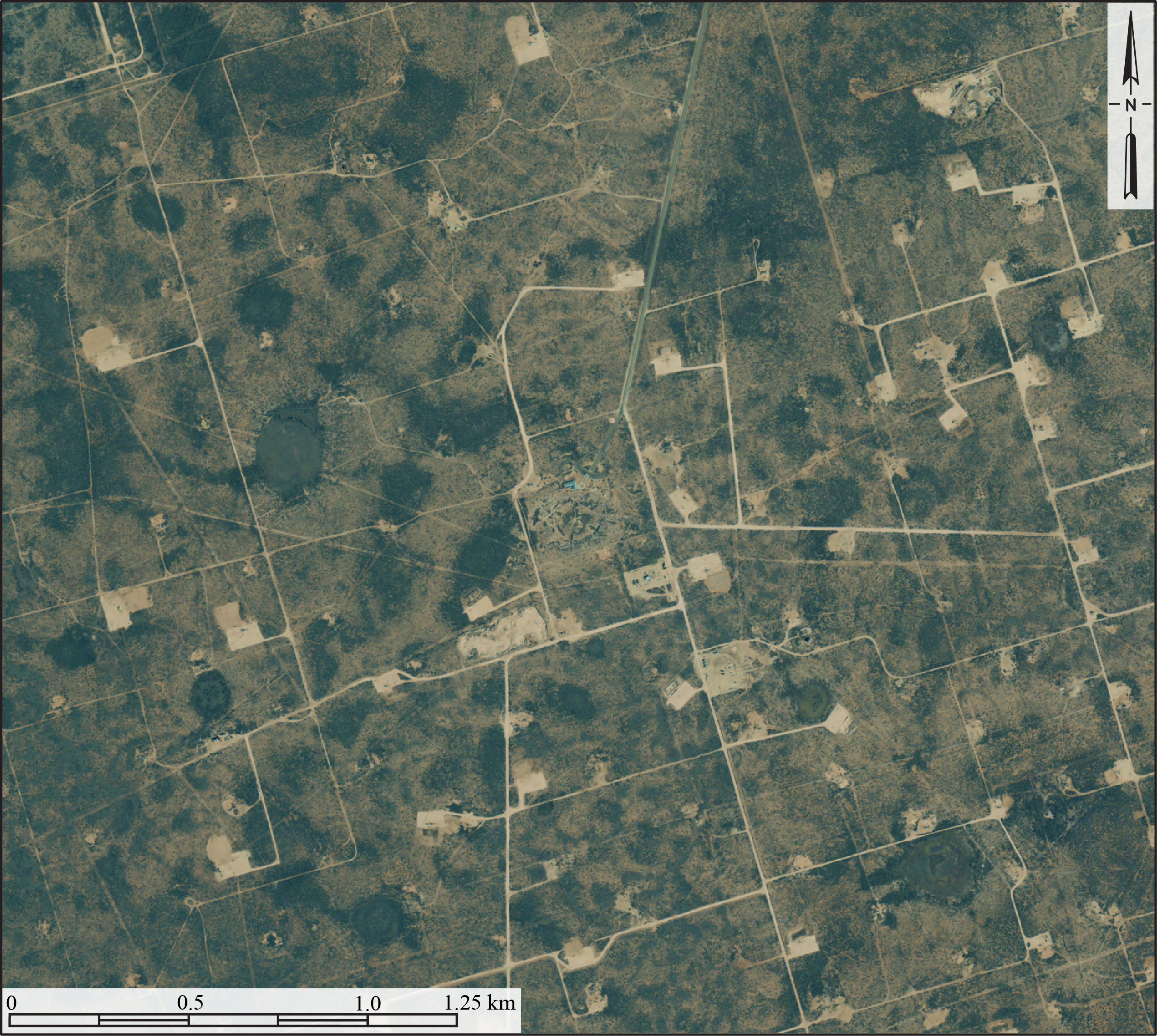 Aerial image centered on the Odessa Meteor Crater in the southwestern part of Ector County, southwest of the city of Odessa, Texas. The dark green circular, oval, to roughly circular features in the area surrounding this extraterrestrial impact crater are playa lakes that occupy shallow depressions of terrestrial, nonimpact origin. The light-colored rectangular features are well pads of oil wells. Constructed from 2008 county NAIP Digital Ortho Photo coverage for Ector County, Texas, from USDA/NRCS - National Cartography & Geospatial Center using Global Mapper 12.0 and Adobe Illustrator. Latitude 31° 45' 21.78" N., Longitude 102° 28' 44.08" W.